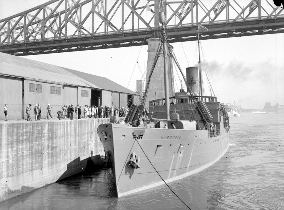 A ship baptized Nascopie is docked near a pillar of Jacques Cartier Bridge in Montreal, Quebec.